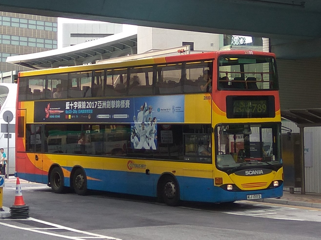 Scania K94UB (License: KJ1502, Fleet: 2800) was operated by Citybus in Hong Kong.